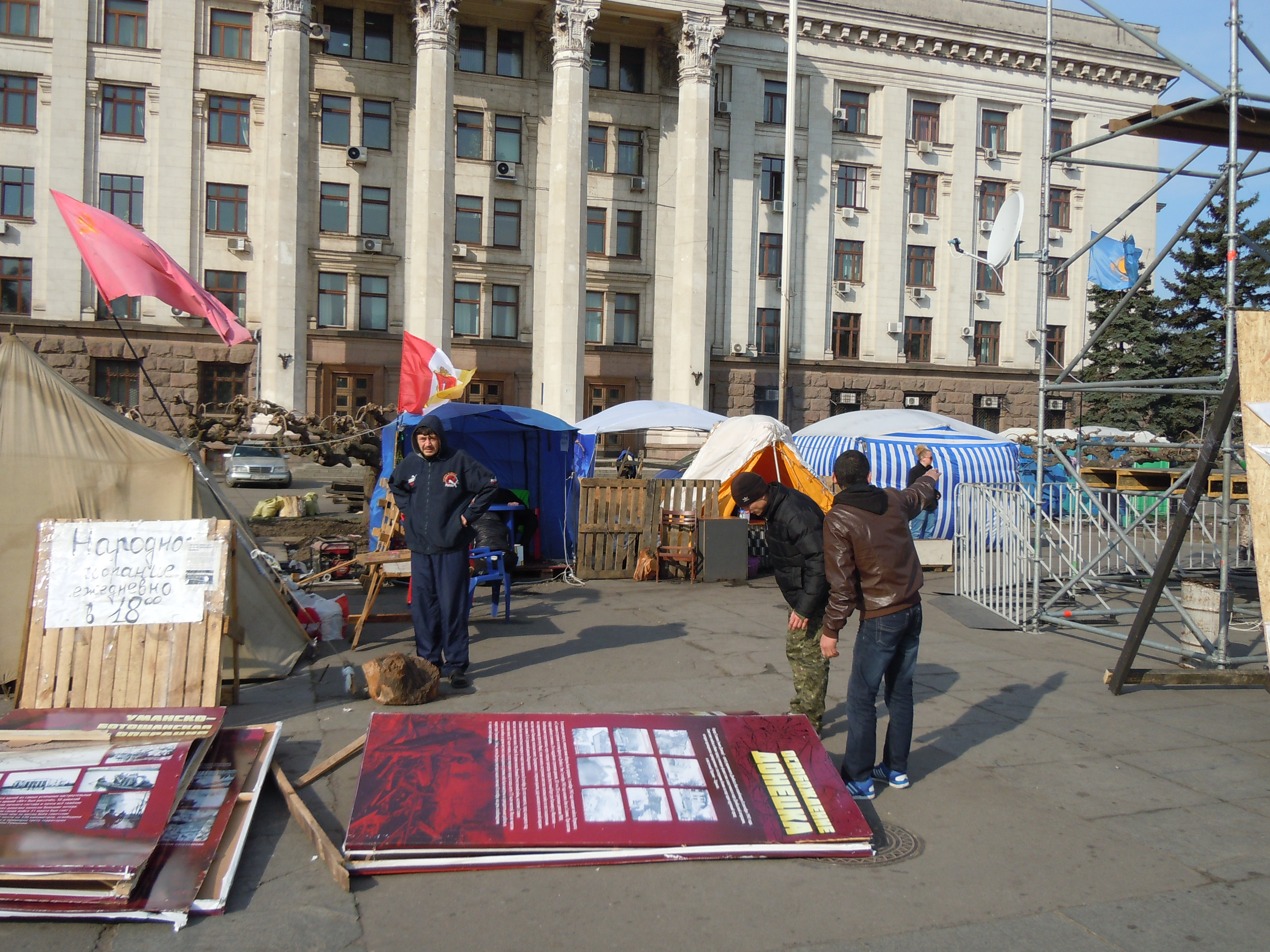 The tents encampment of Russian nationalists at the Kulikove Pole square in Odessa, Ukraine